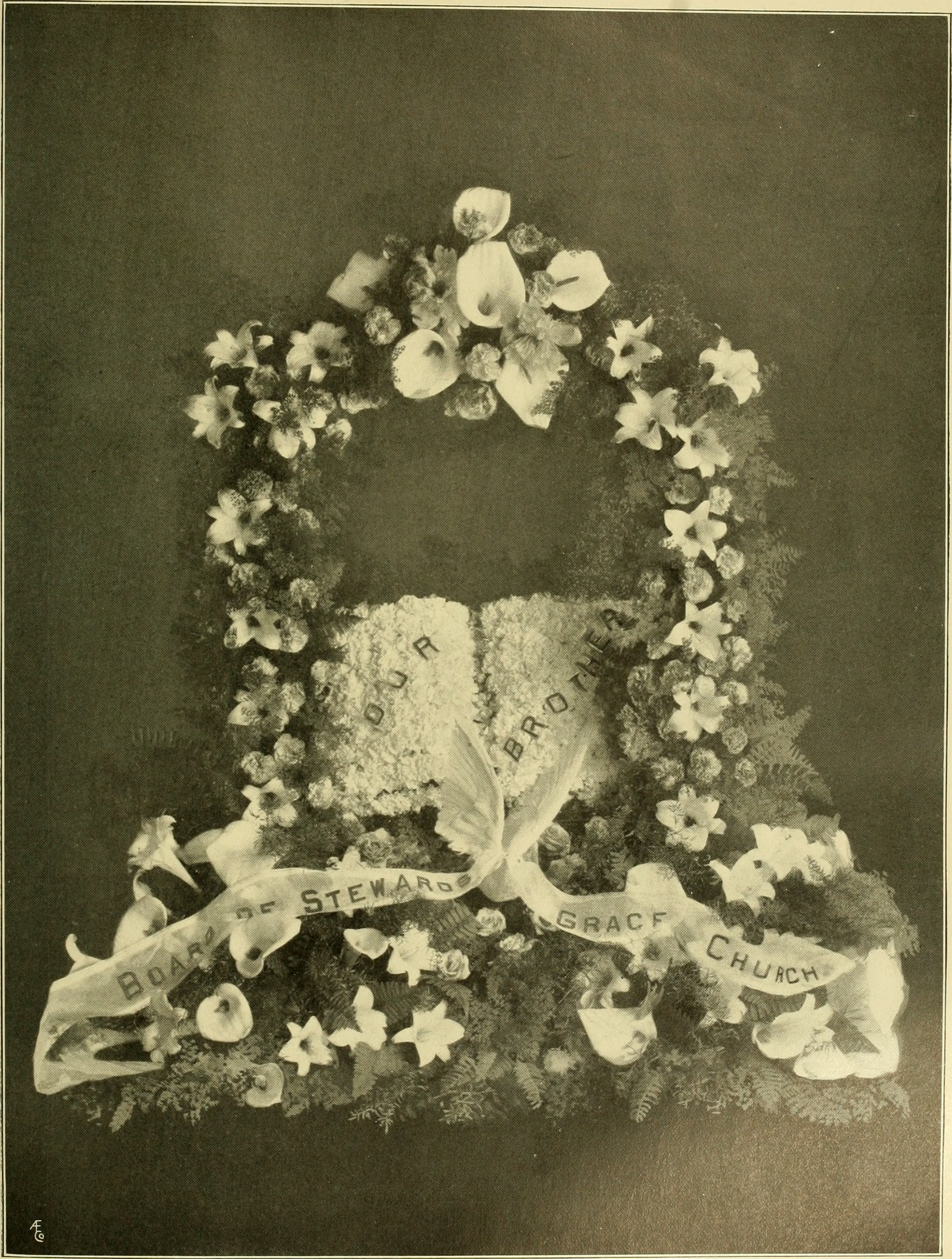 Title: The American florist : a weekly journal for the trade Year: 1885 (1880s) Authors: American Florists Company Subjects: Floriculture; Florists Publisher: Chicago : American Florist Company Text Appearing Before Image: Supplement to The American Florist, No. 1085, Marcli 20, 1909. Text Appearing After Image: GATES AJAR.